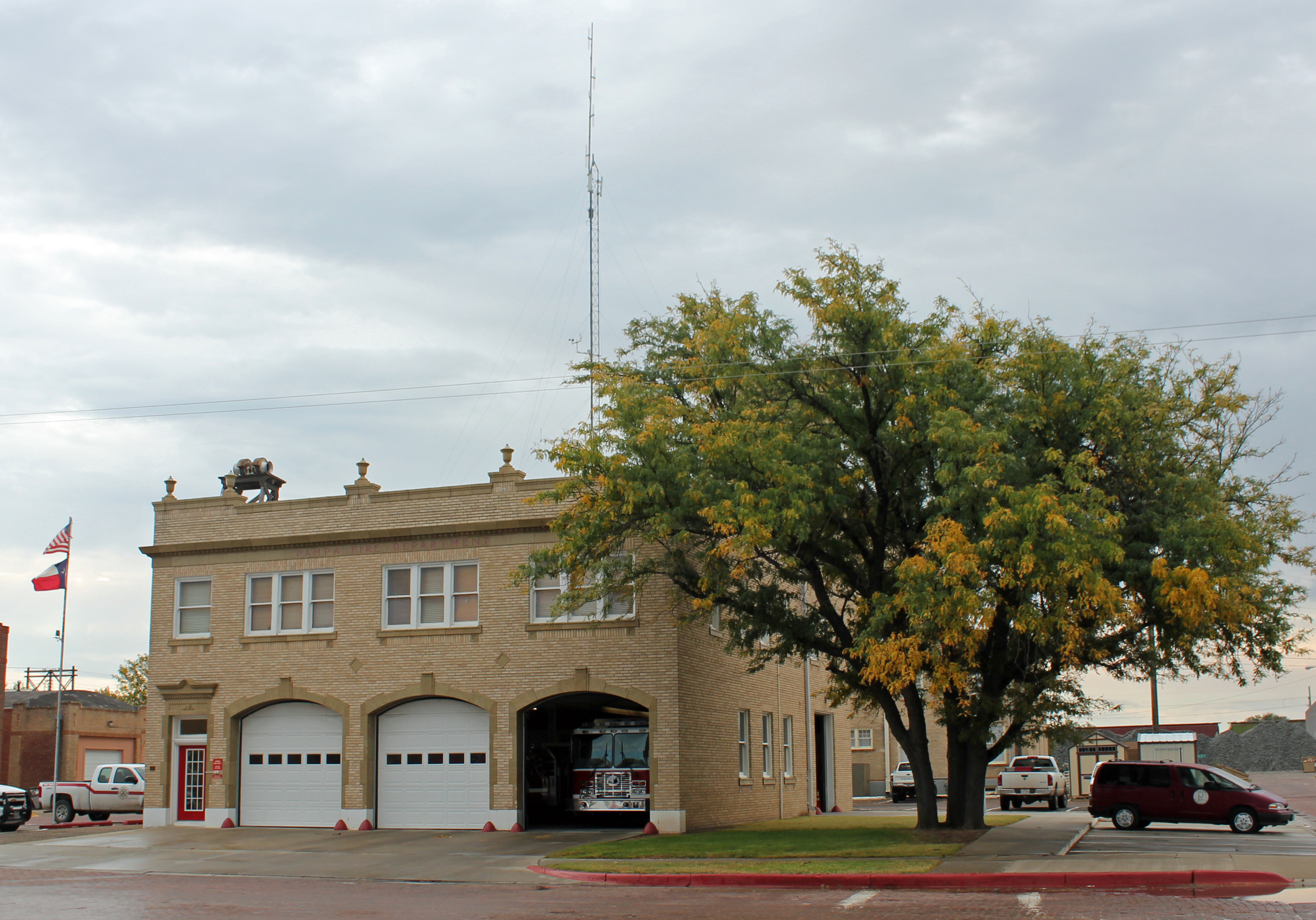 Central Fire Station, located at 203 West Foster Street in Pampa, Texas. The property is listed on the National Register of Historic Places.